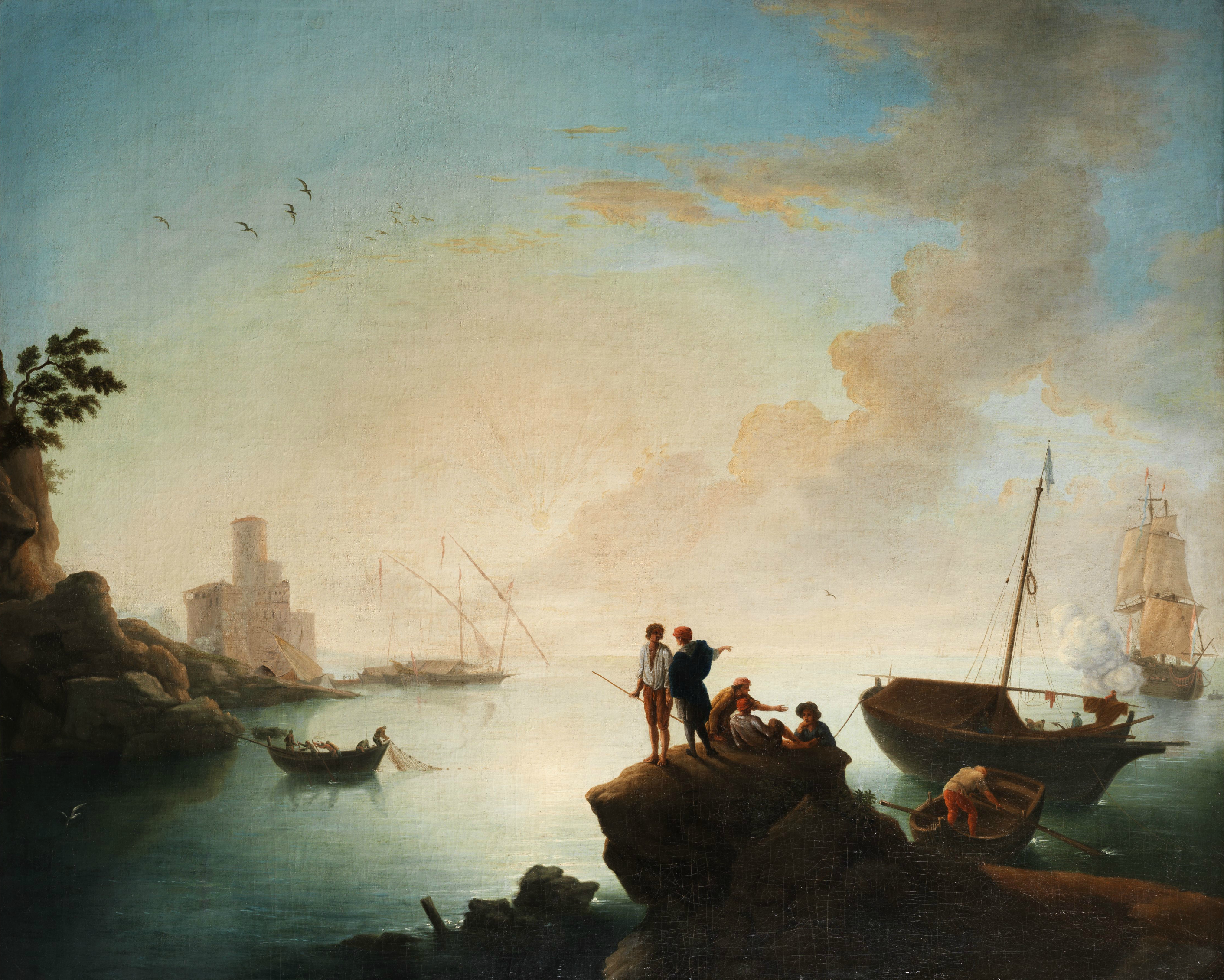 Mediterranean scene with fishermen in front of a cannon shooting galley, Oil on canvas (139 x 170 cm).